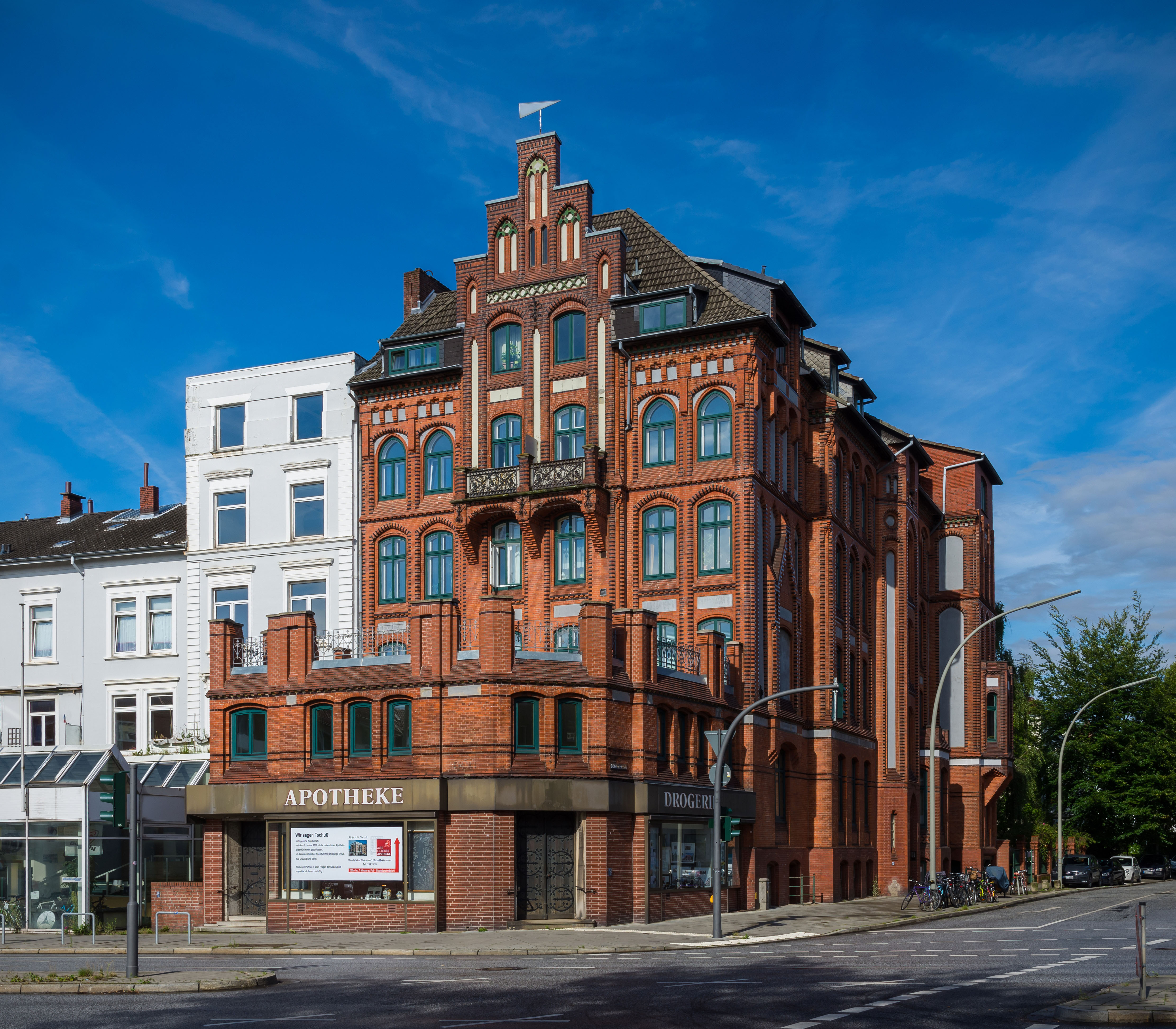 Apartment and office building with (defunct) pharmacy at the intersection of Kuhmühle and Güntherstraße in Hohenfelde, Hamburg, Germany.